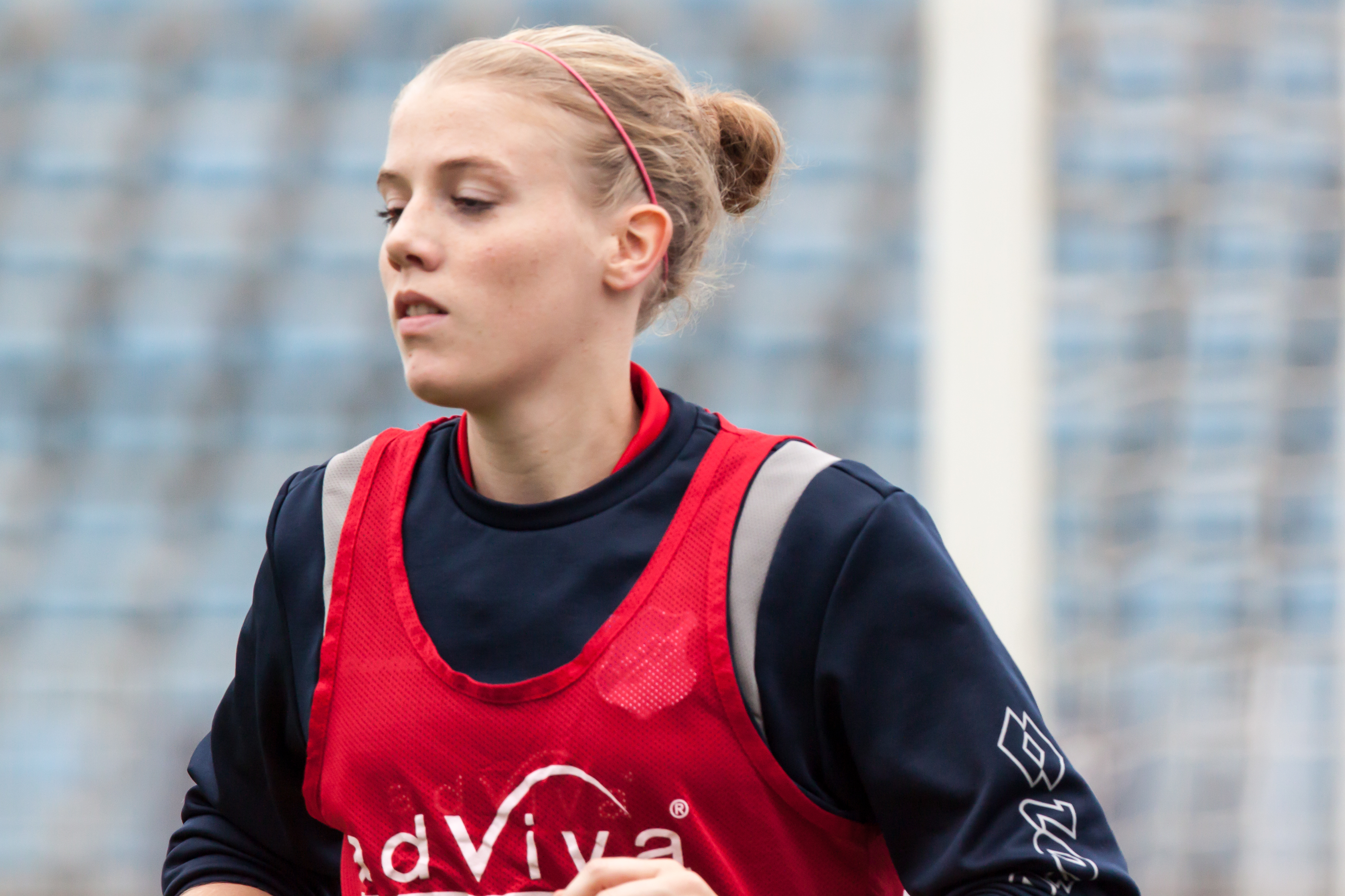 German Women Bundesliga soccer game: FF USV Jena vs. TSG 1899 Hoffenheim, 2014-10-11, at Ernst-Abbe-Sportfeld Jena.